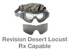 Example of ballistic eyewear than can have prescription lenses.